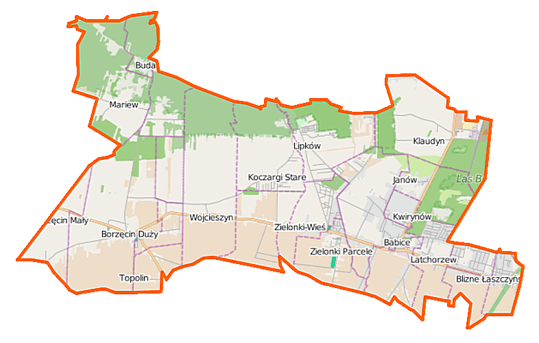 Map of Gmina Stare Babice, Poland This map of Stare Babice (gmina) was created from OpenStreetMap project data, collected by the community. This map may be incomplete, and may contain errors. Don't rely solely on it for navigation. Border coordinates52.309120.6845←↕→20.900552.2251